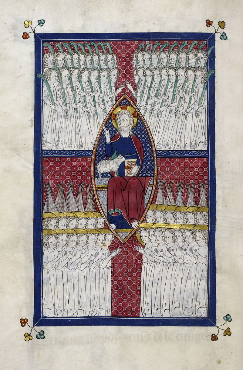 Welles Apocalypse - Royal 15 D II